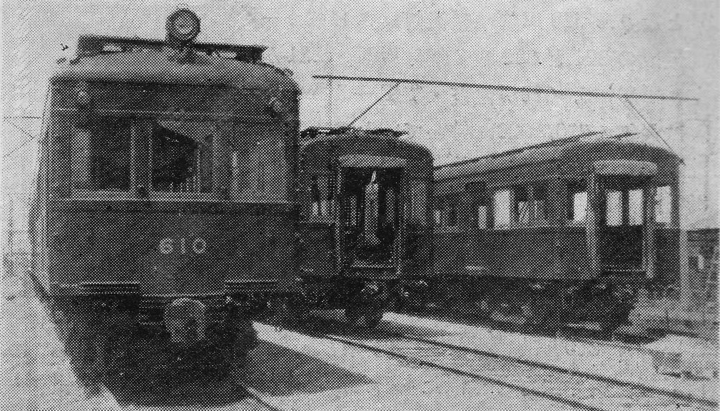 Hankyu Railway #610.